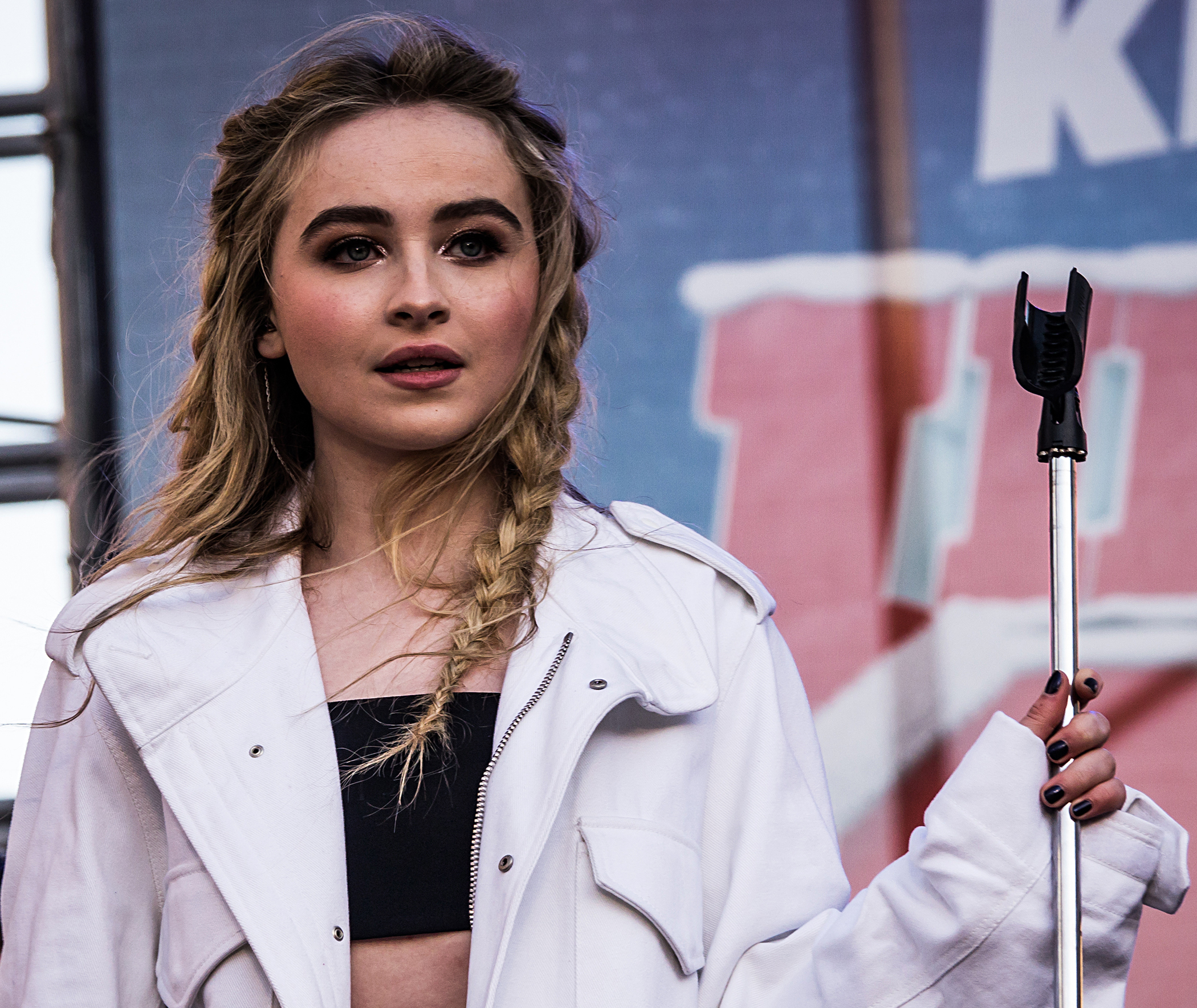 Sabrina Carpenter performing live at the 102.7 KIIS FM Jingle Ball Village, outside Staples Center in downtown Los Angeles, California, on Friday, December 2, 2016.